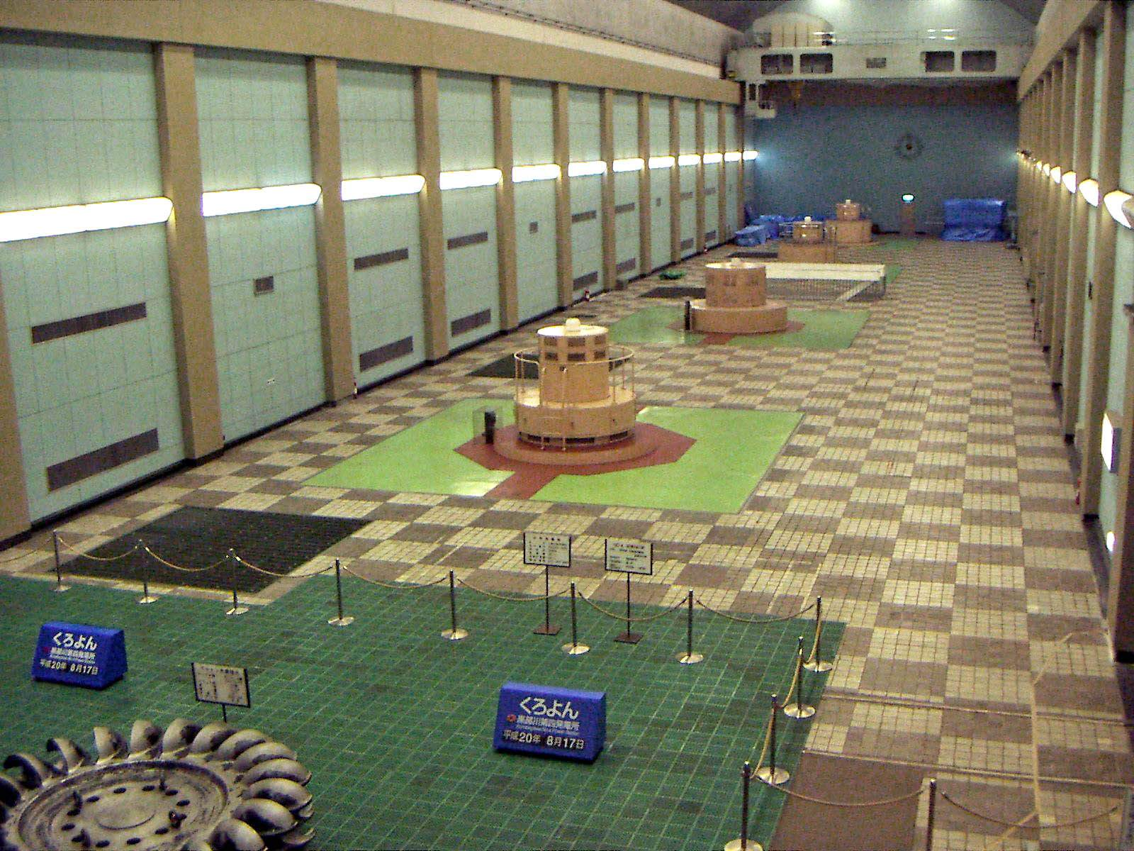 Kurobegawa No.4 Power Station